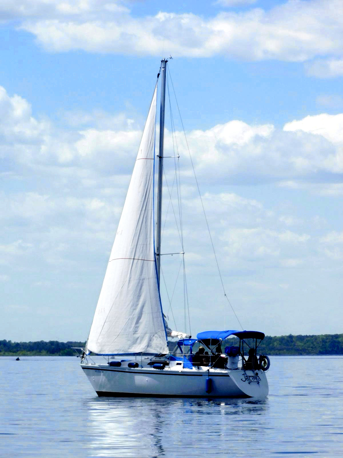 A Hunter 28.5 sailboat named Jacana.